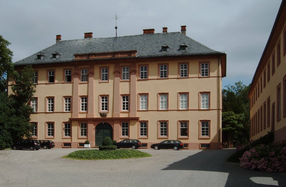 Castle in Hirschberg